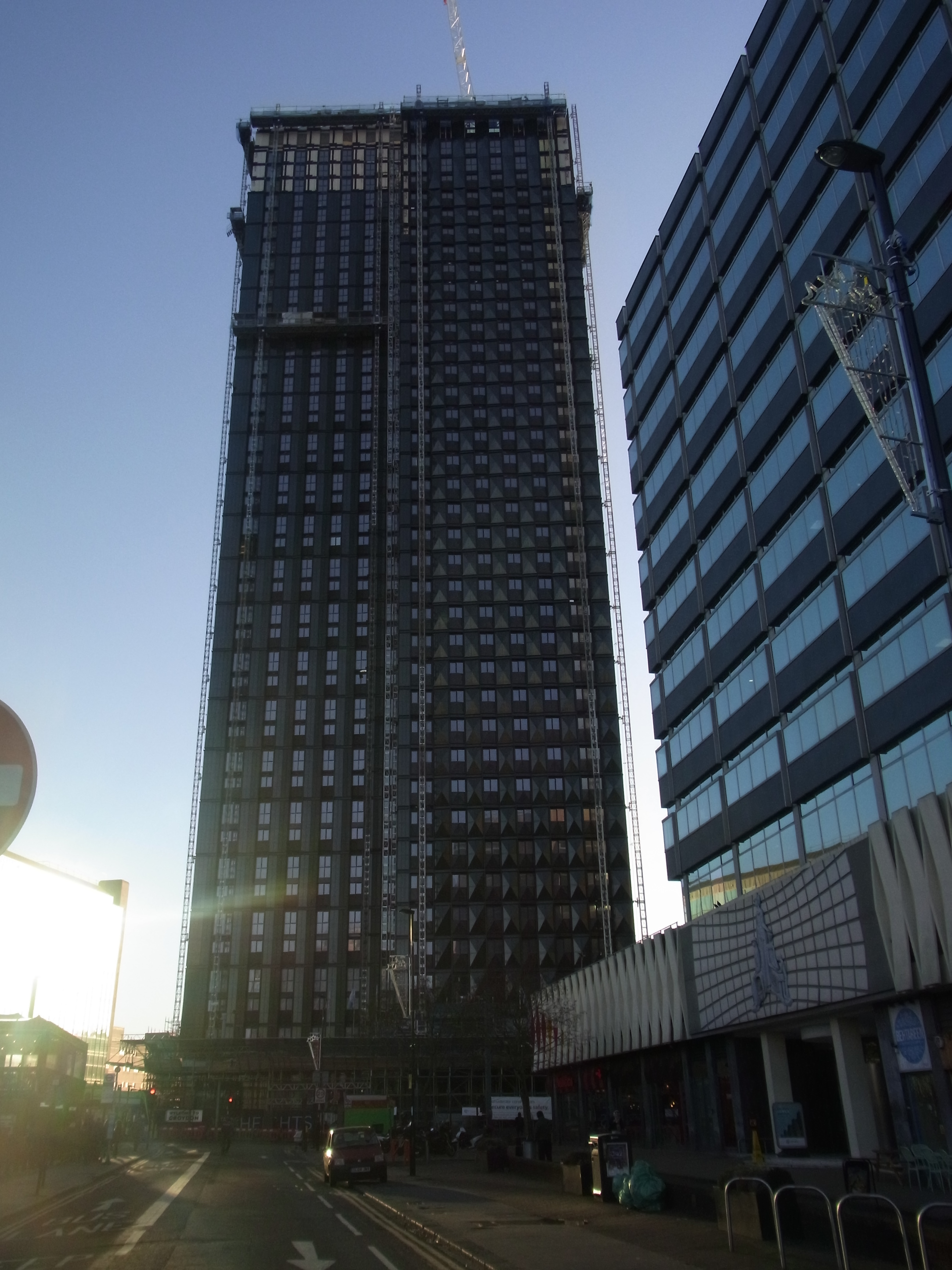 101 George Street, Croydon, January 3, 2020